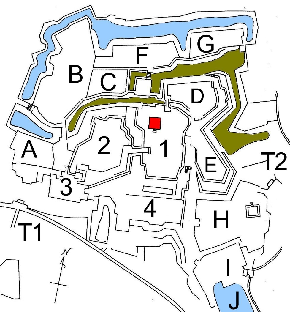 Layout of Fushimi castle